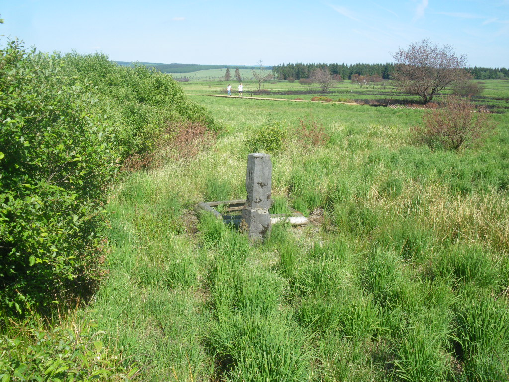 Old boundary stone at the "Fontaine Perigny" (origin of the Hill River) in High Fens, between Nederlands (1815-1830) then Belgium (1830-1918), and Prussia (1815-1870) then Germany (1870-1918)